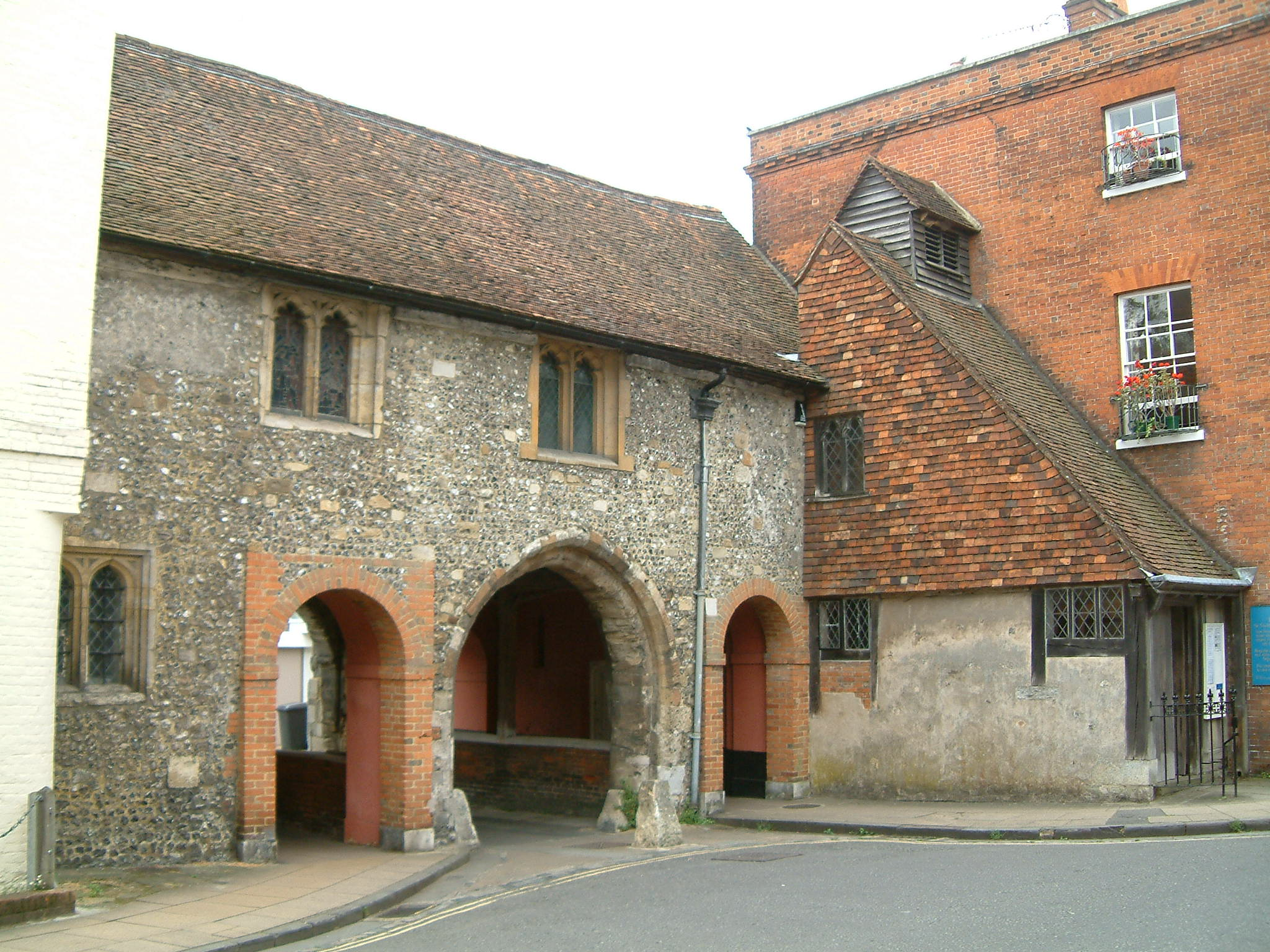 Kingsgate and St Swithun's Church, Winchester, Hampshire